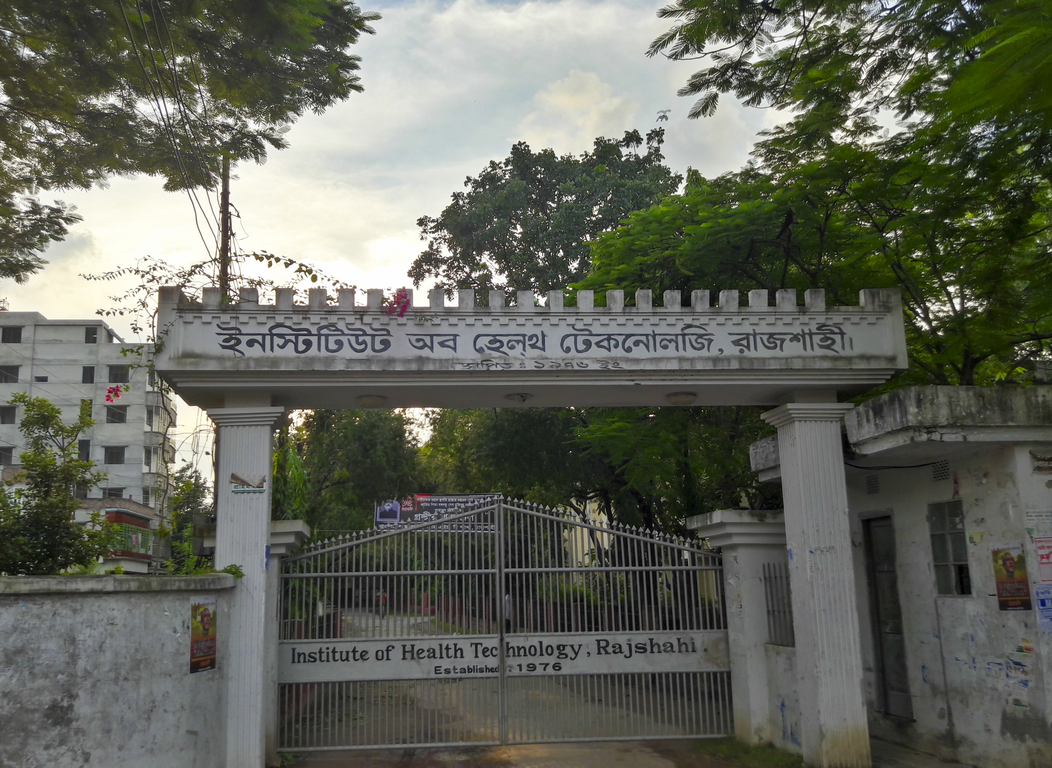 Institute of Health Technology, Rajshahi or short form I.H.T Rajshahi One of the Government Medical Institute in Rajshahi, Bangladesh.